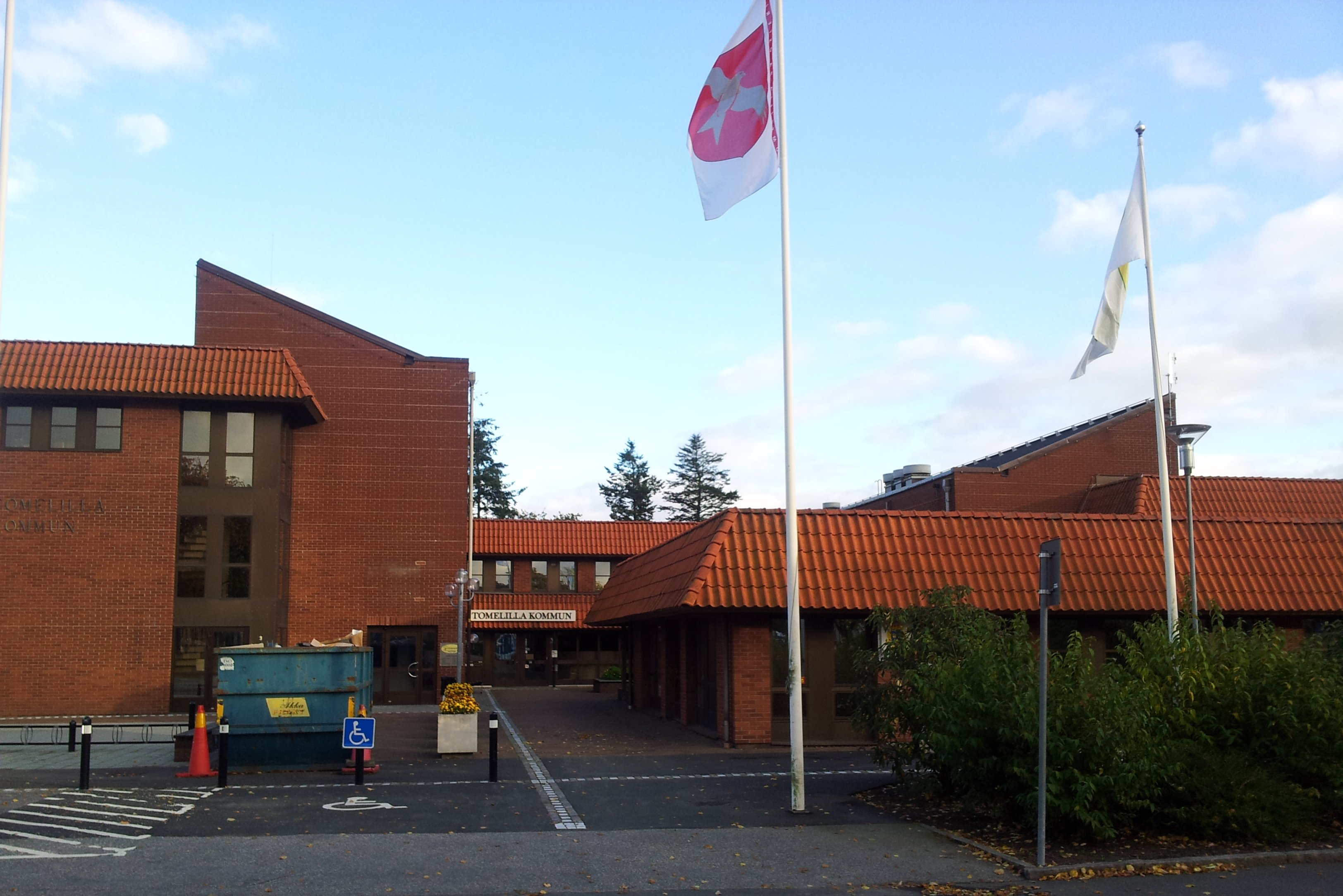 Tomelilla's municipal building